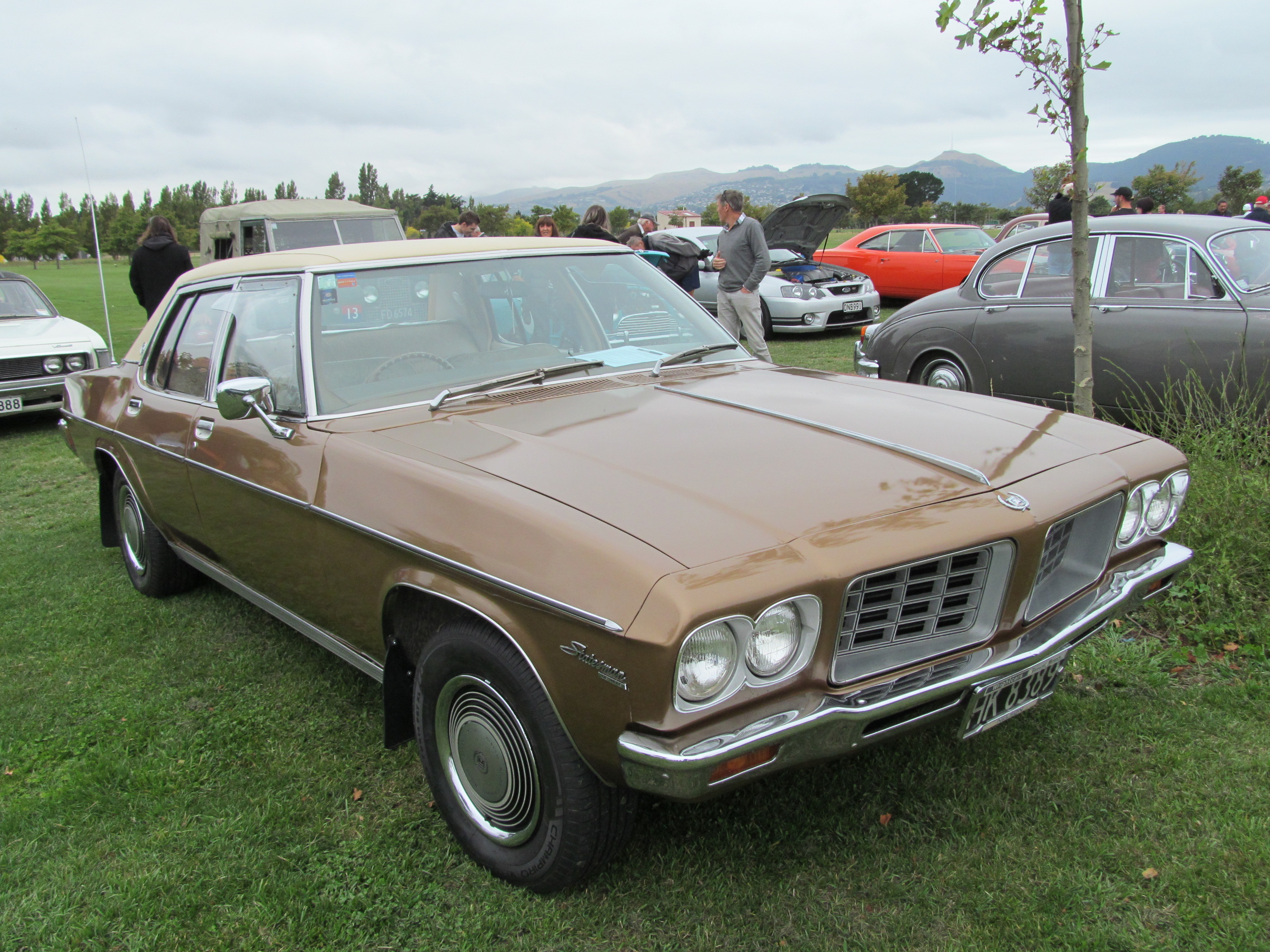 Statesman de Ville HQ with the smaller 308ci or 5.0-litre V8 engine. The De Ville was the top model of the two Statesman HQ variants, with the Custom being the base model. This was still a damn nice car! Note the Statesman badge on the bonnet.